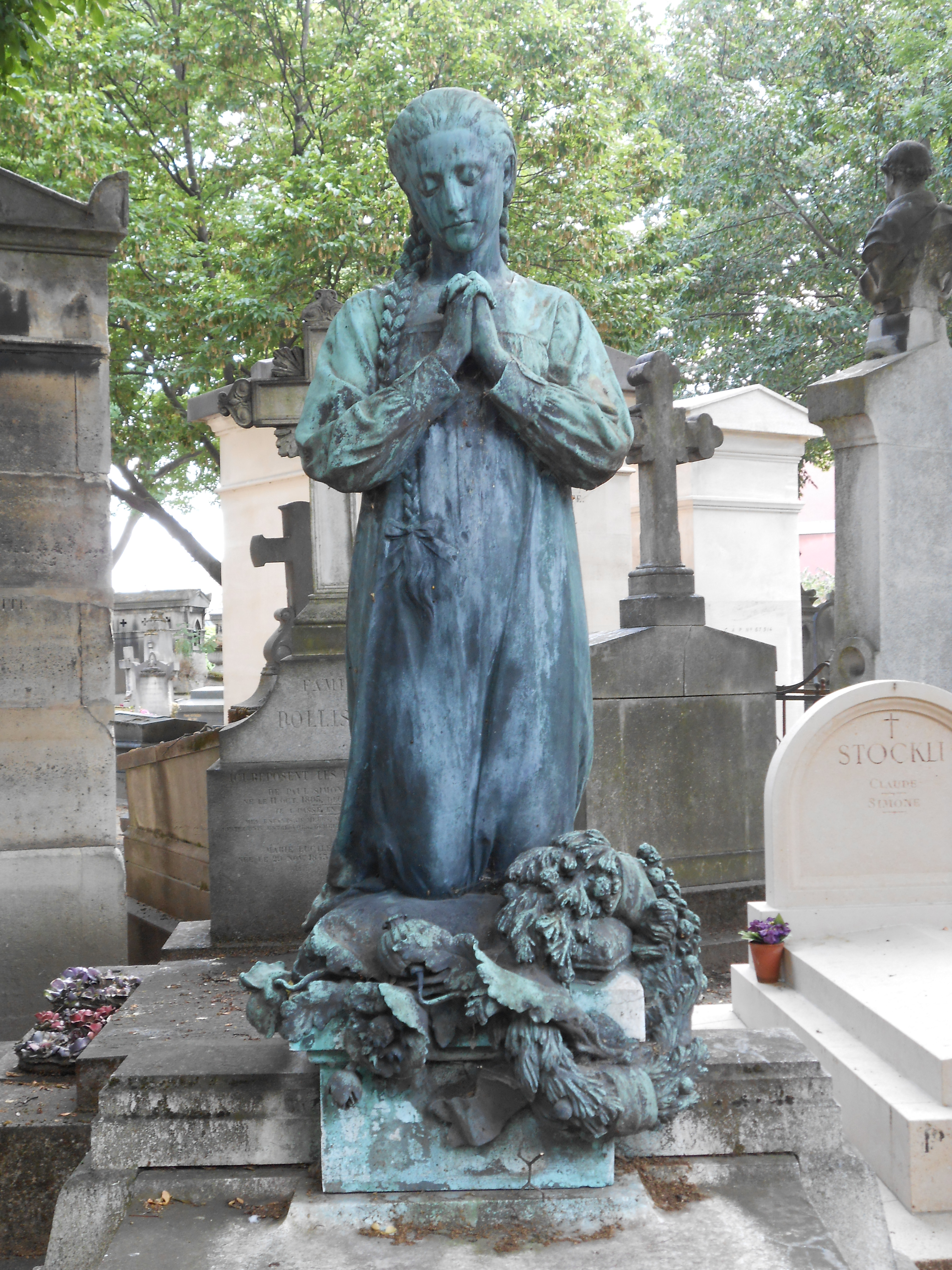 Statue of a woman praying by Henri Allouard.